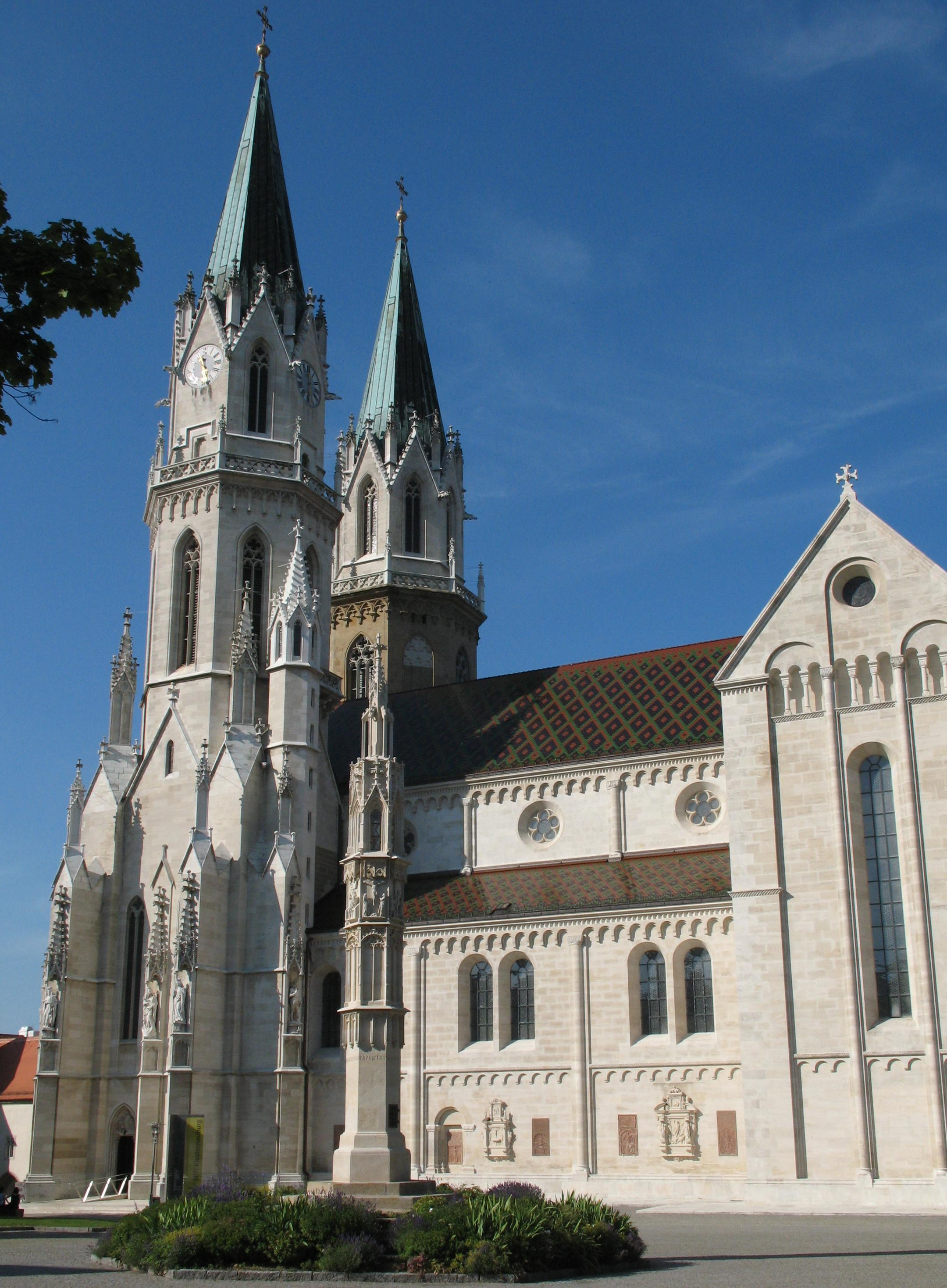 Collegiate church in Klosterneuburg, Austria